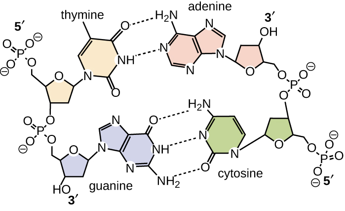 Name: Microbiology ID: Language: English Summary: Subjects: Science and Technology Keywords: Print Style: License: Creative Commons Attribution License (by 4.0) Authors: OpenStax Microbiology Copyright Holders: OpenStax Microbiology Publishers: OpenStax Microbiology Latest Version: 4.4 First Publication Date: Oct 17, 2016 Latest Revision: Nov 11, 2016 Last Edited By: OpenStax Microbiology